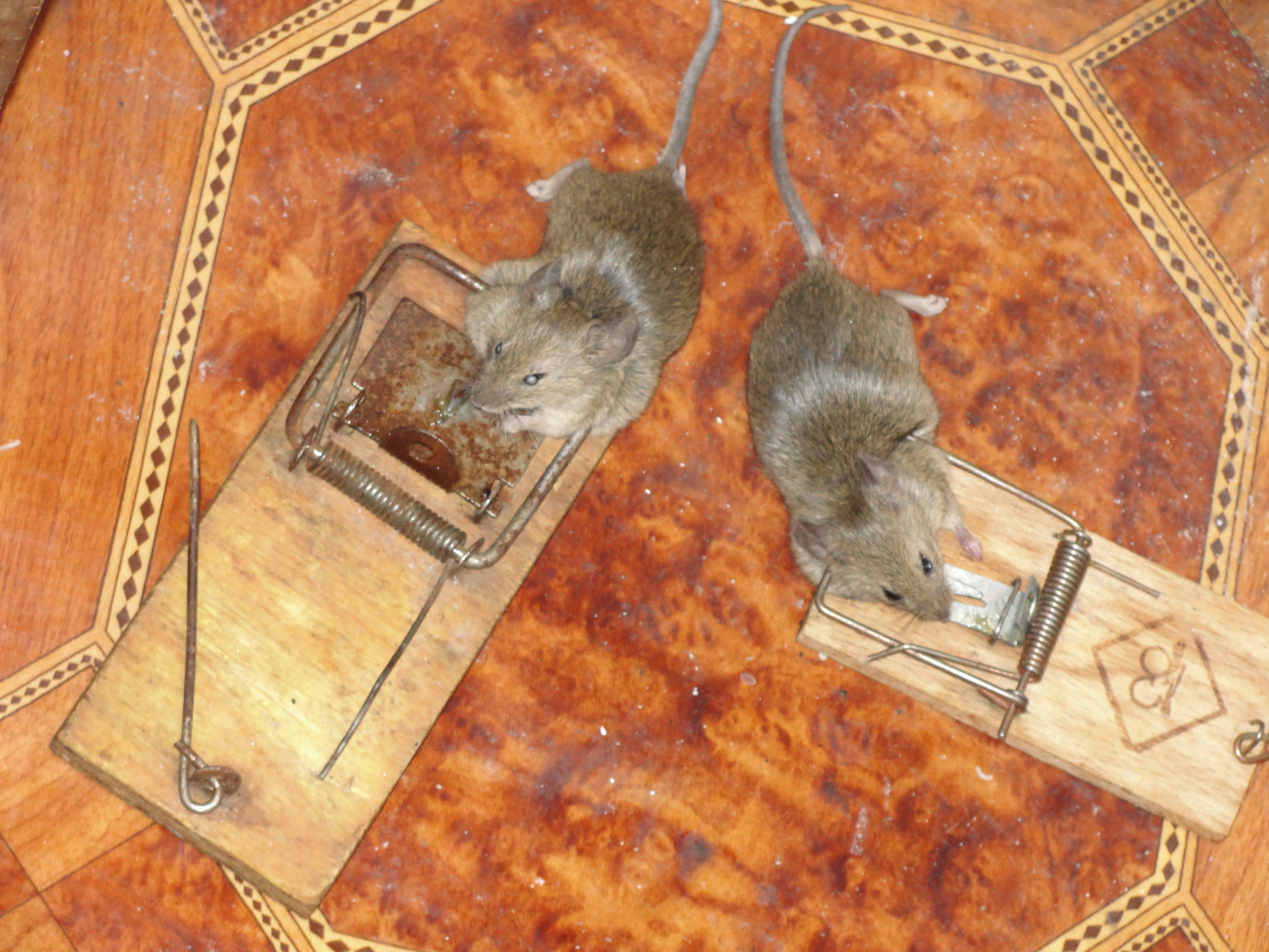 Mice in Mousetraps